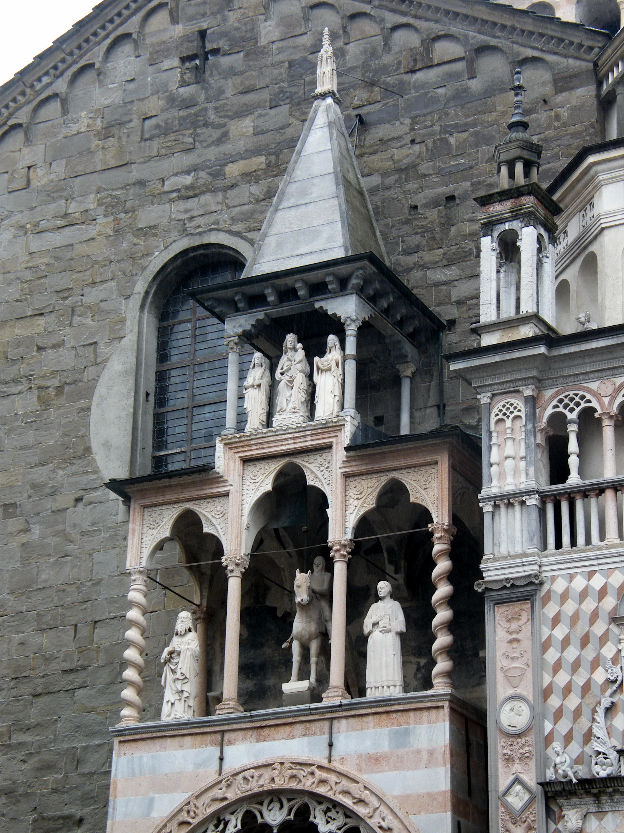 Colleoni chapel in Bergamo